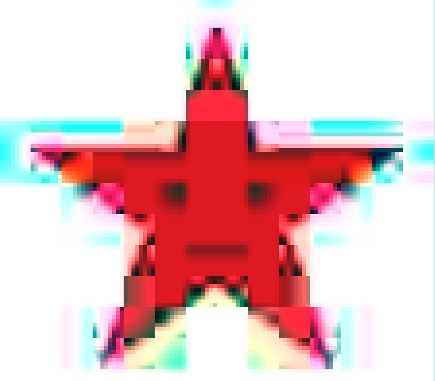 A red asterisk heavily distorted by JPEG artifacts, including ringing: cyan (= white minus red) rings around a red star. Wikipedia:Ringing artifacts